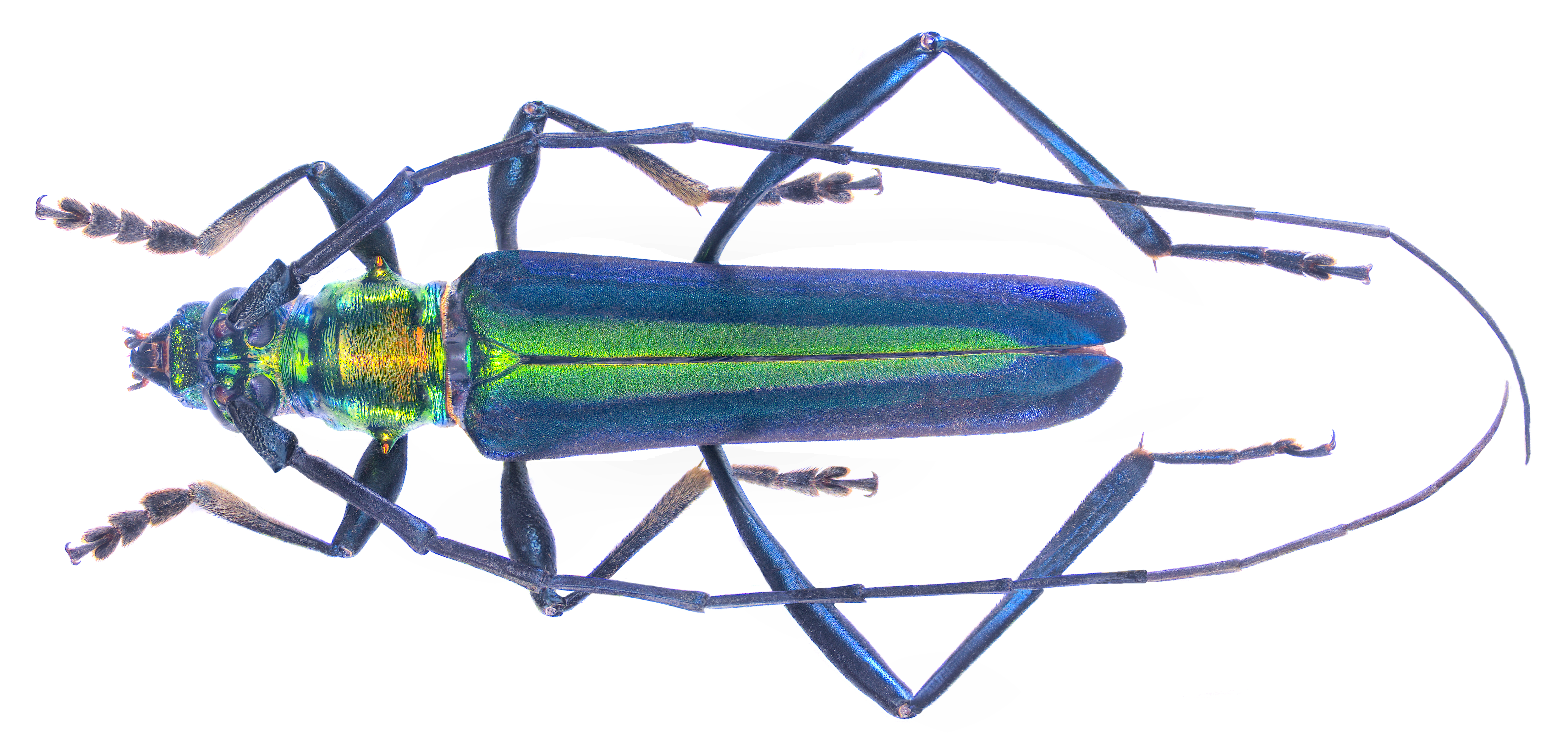 Family: Cerambycidae Size: 25.0 mm Location: Togo, Tchamba leg. local collector, IV.2014; det. P.Haller, 2016; Coll. A.Skale Photo: U.Schmidt, 2017